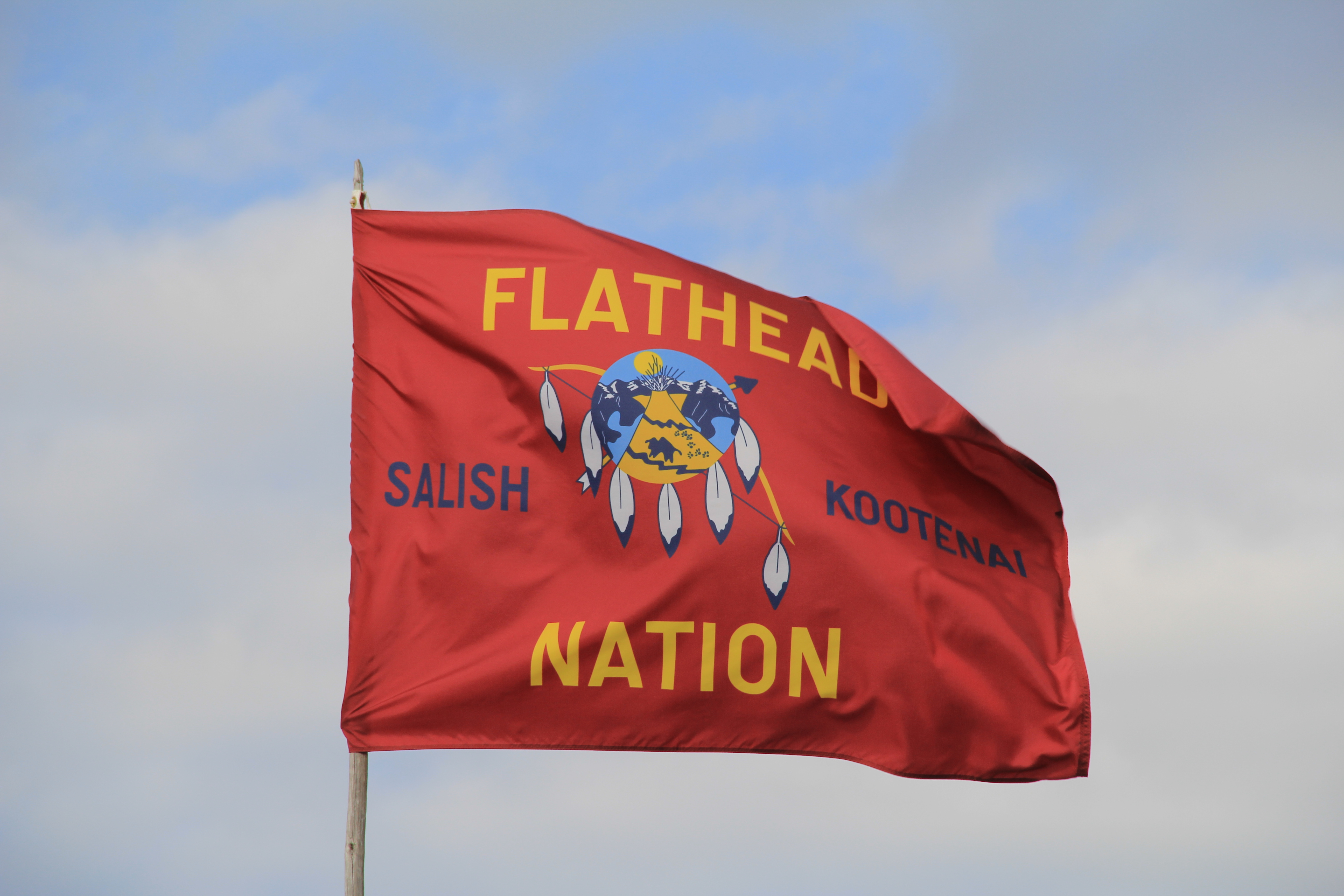 Flathead Nation Flag. Arlee Esyapqeni - Arlee Celebration Pow Wow 2015, in Arlee, Montana. July 6, 2015.